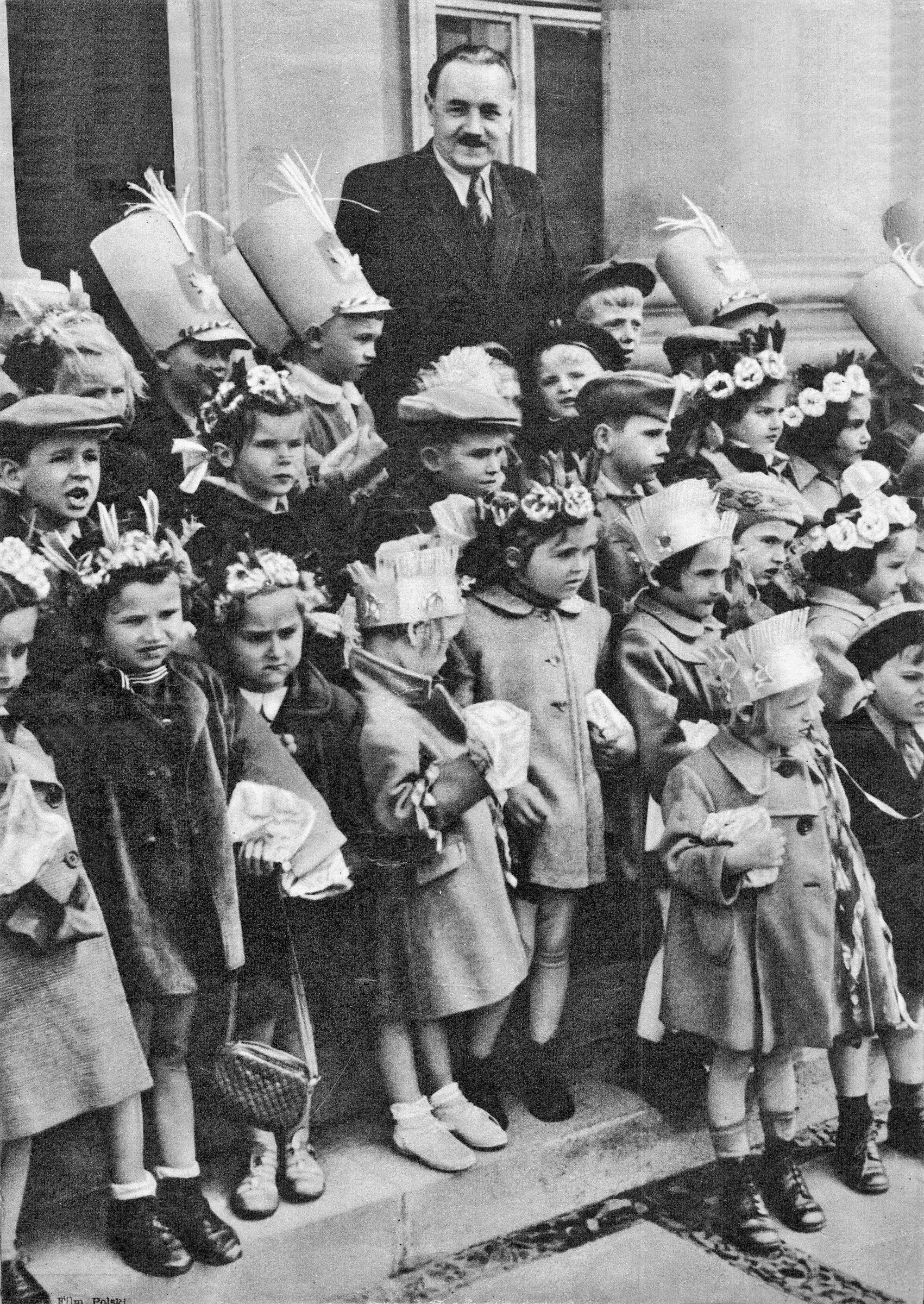 Bolesław Bierut 59th birthday